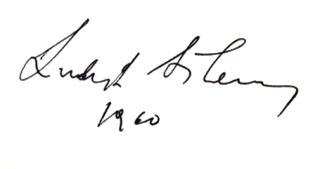 signatura of Ludvík Aškenazy